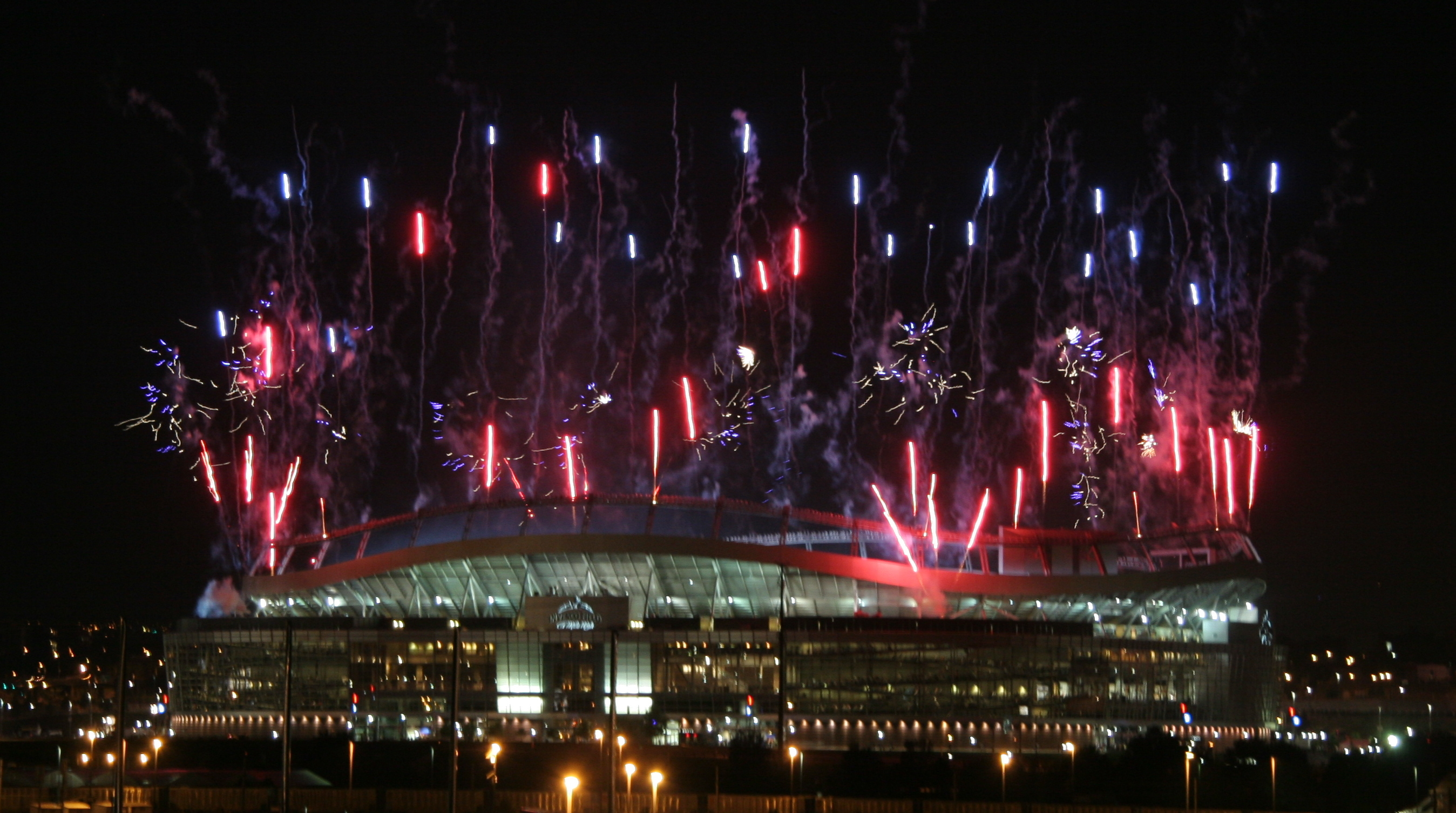 invescofireworks